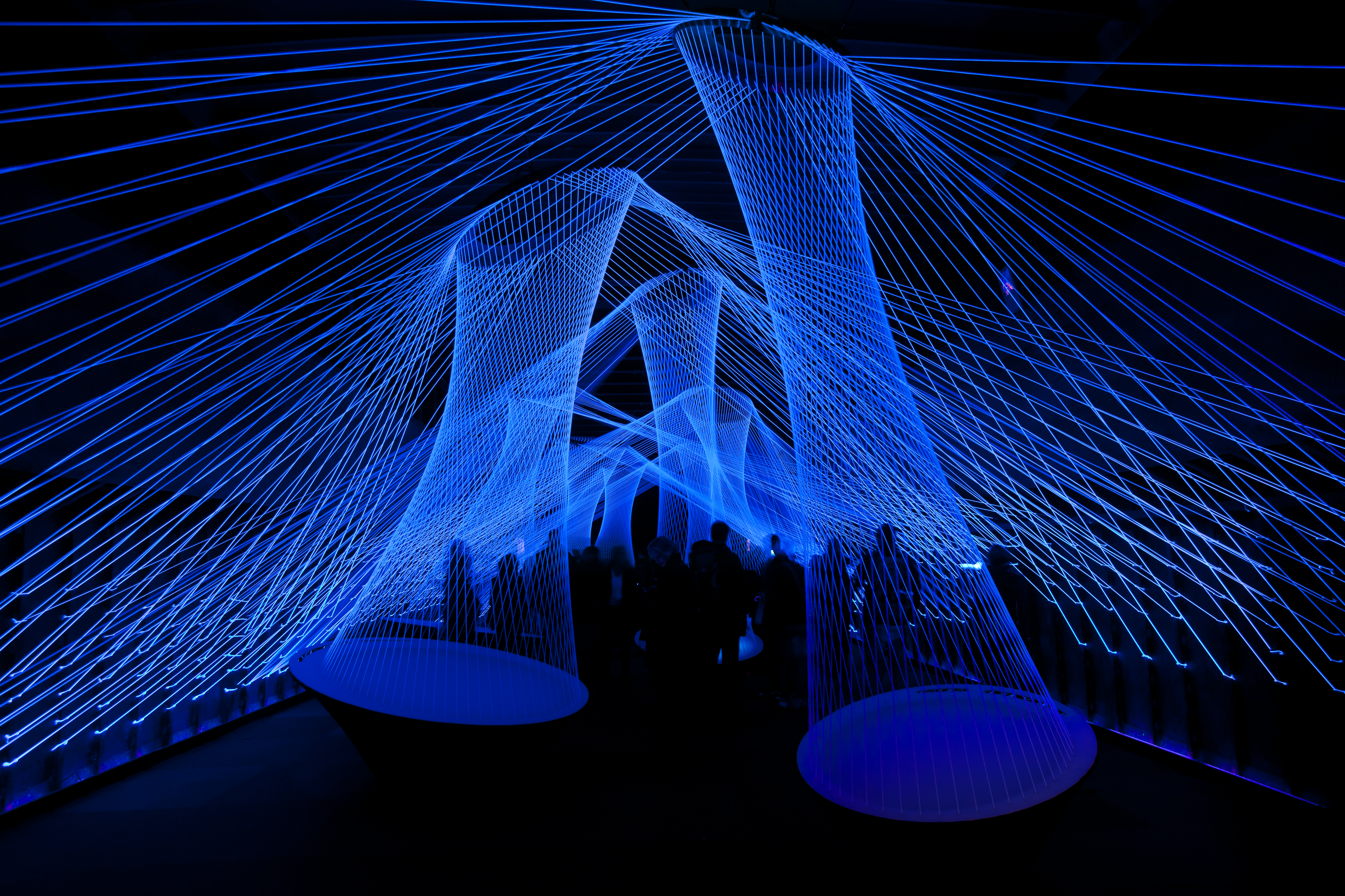 “Resonate” at Luminale 2012 in Frankfurt, Germany